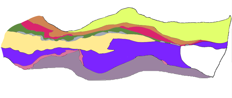 Geological map of Qinling Pale green area: South-North China Block Brown area: Kuanpink group Pink area: Erlangping group Dark green area: North Qingling Block Light blue area: Shangdan suture zone Beige area: North-South Qinling Belt Dark blue area: South-South Qingling Belt Pinkish purple area: Mianlue suture zone Grey area: North-South China Block White area: Dabie terrane Modify from Dong et. al., 2011